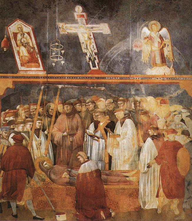 Legend of St Francis